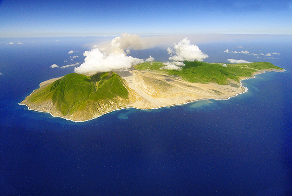 Soufrière Hills Volcano became active in 1995 devastating 2/3 of the island Montserrat in West Indies. Here is the aerial view with clouds over Soufriere Hills Volcano